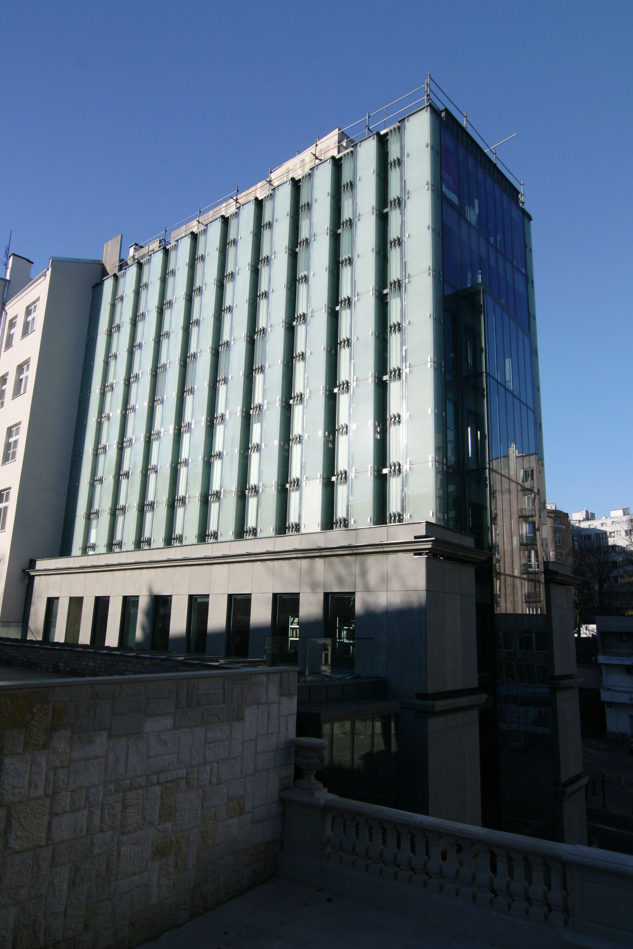 Chopin Center in Warsaw, view from eastern end of Ordynacka Street